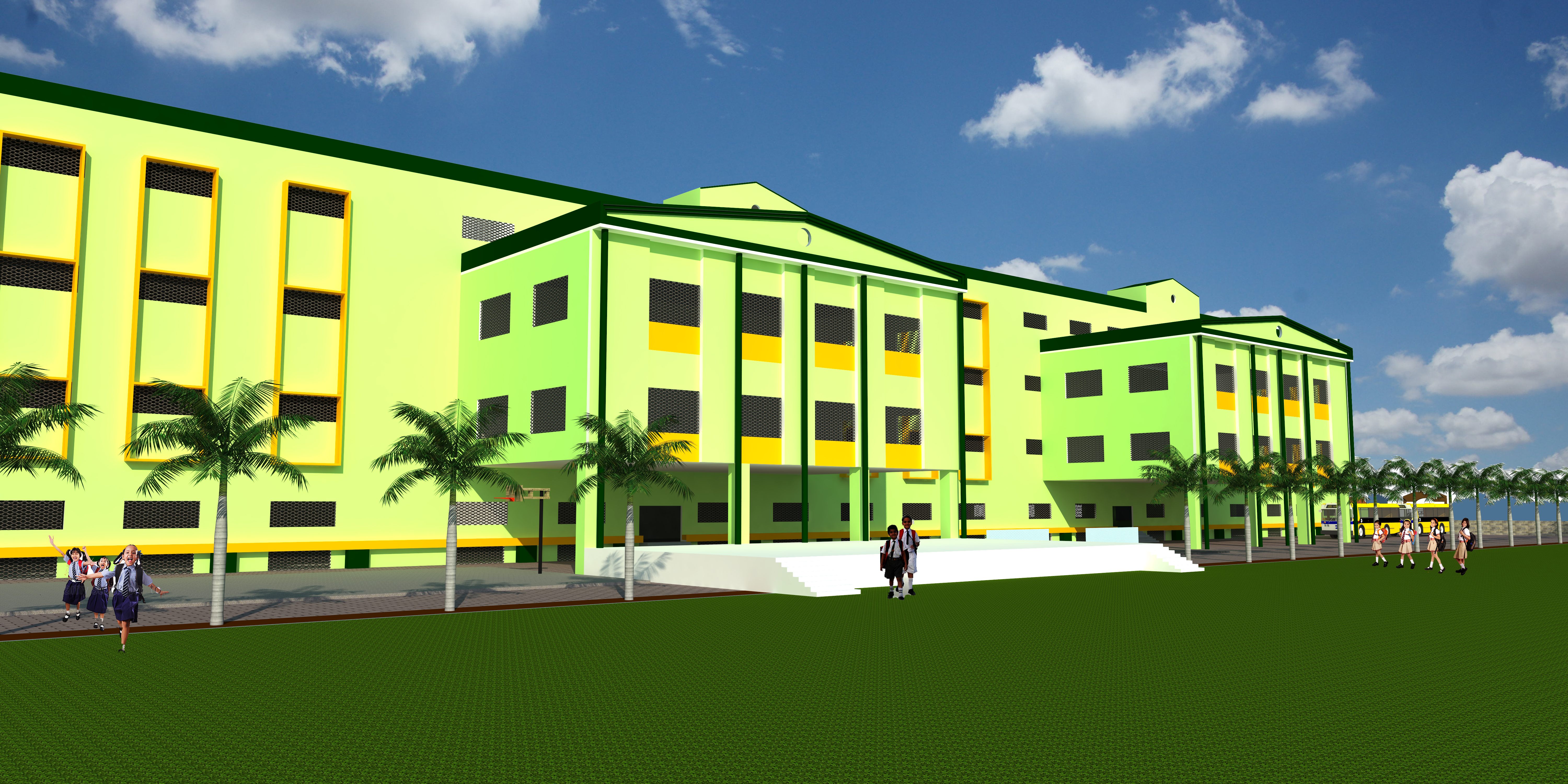 Front View